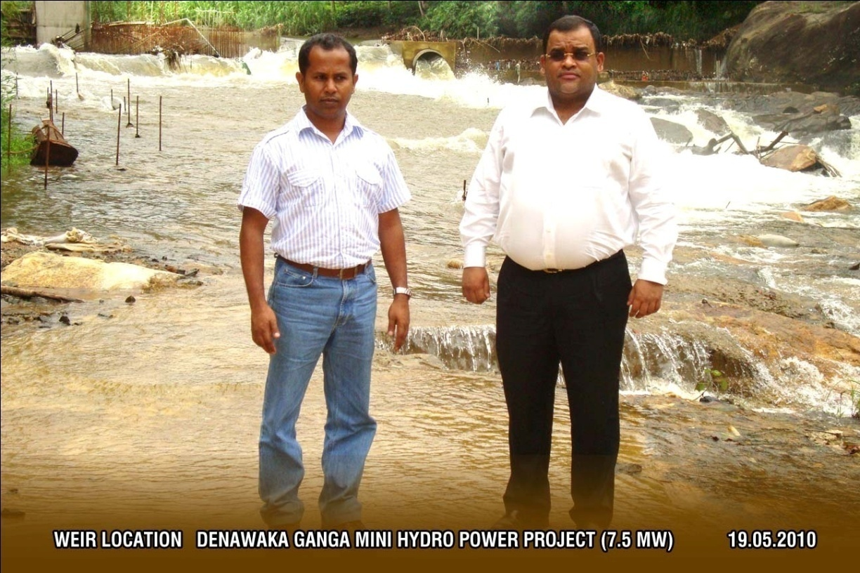 Vallibel